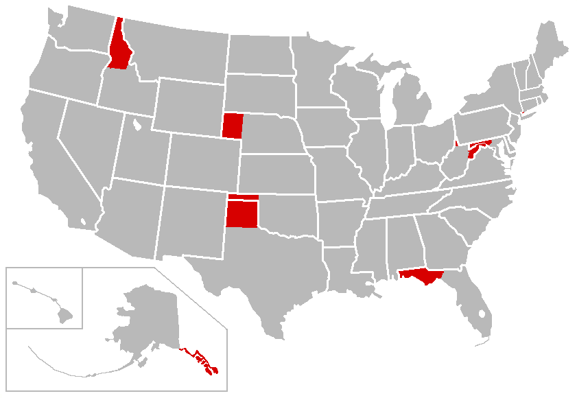 derived from Image:BlankMap-USA-states.PNG; map of states with panhandle